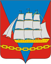 Vanino rayon (Khabarovsk krai), coat of arms